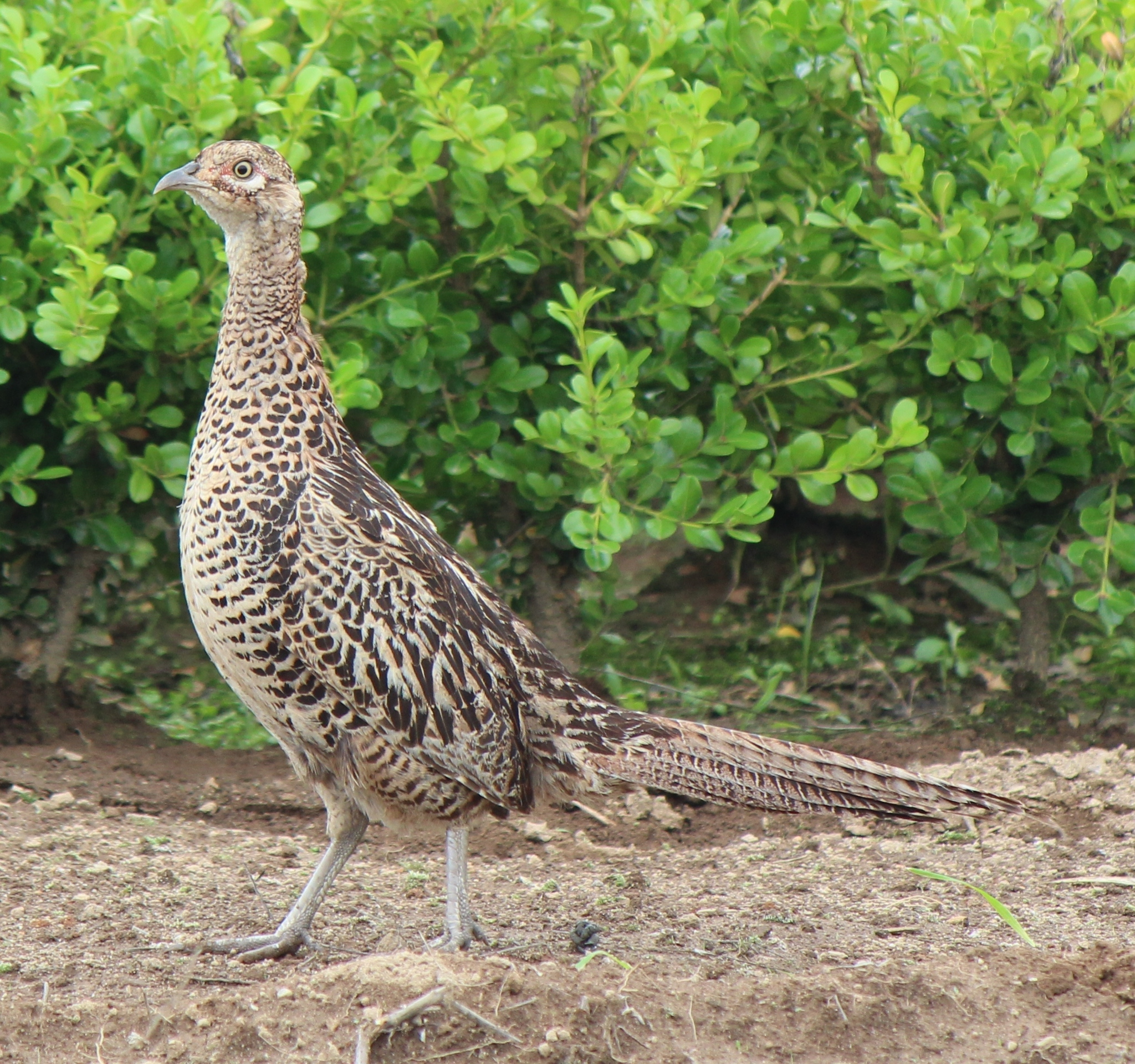 Phasianus versicolor (Green Pheasant, Phasianus colchicus versicolor), female in Japan